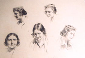 Various sketches of Zelma Brauere by Rihards Zariņš, Zelma Brauere is the person depicted on the current Latvian Euro coins and on Lati coins and banknotes since 1929 (5 Lati coin 1929 and 2003 and 2012, 500 Lati banknote 1992)